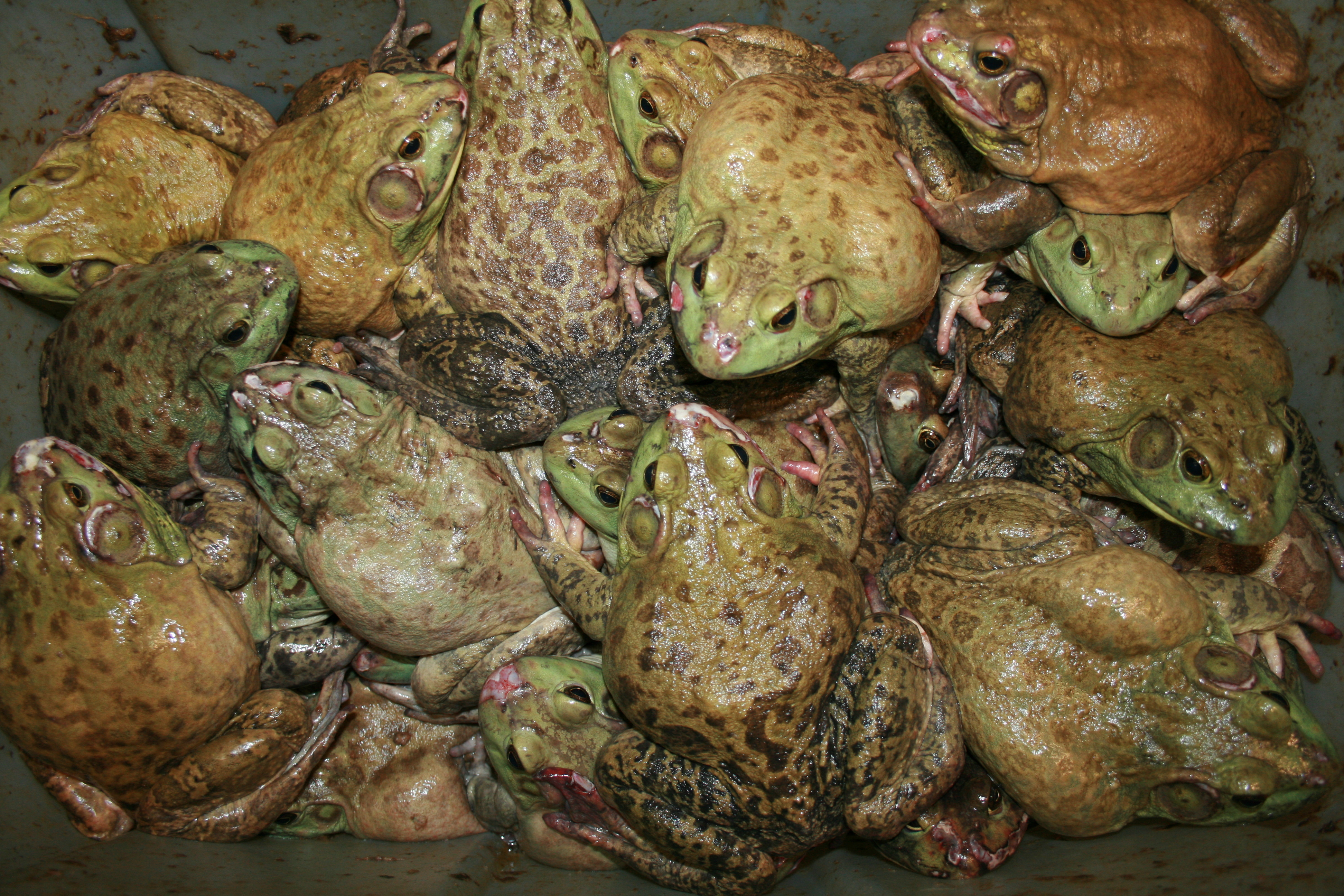 Frogs for sale in a Chinese store in San Francisco. I believe that treating animals like that should be prohibited.